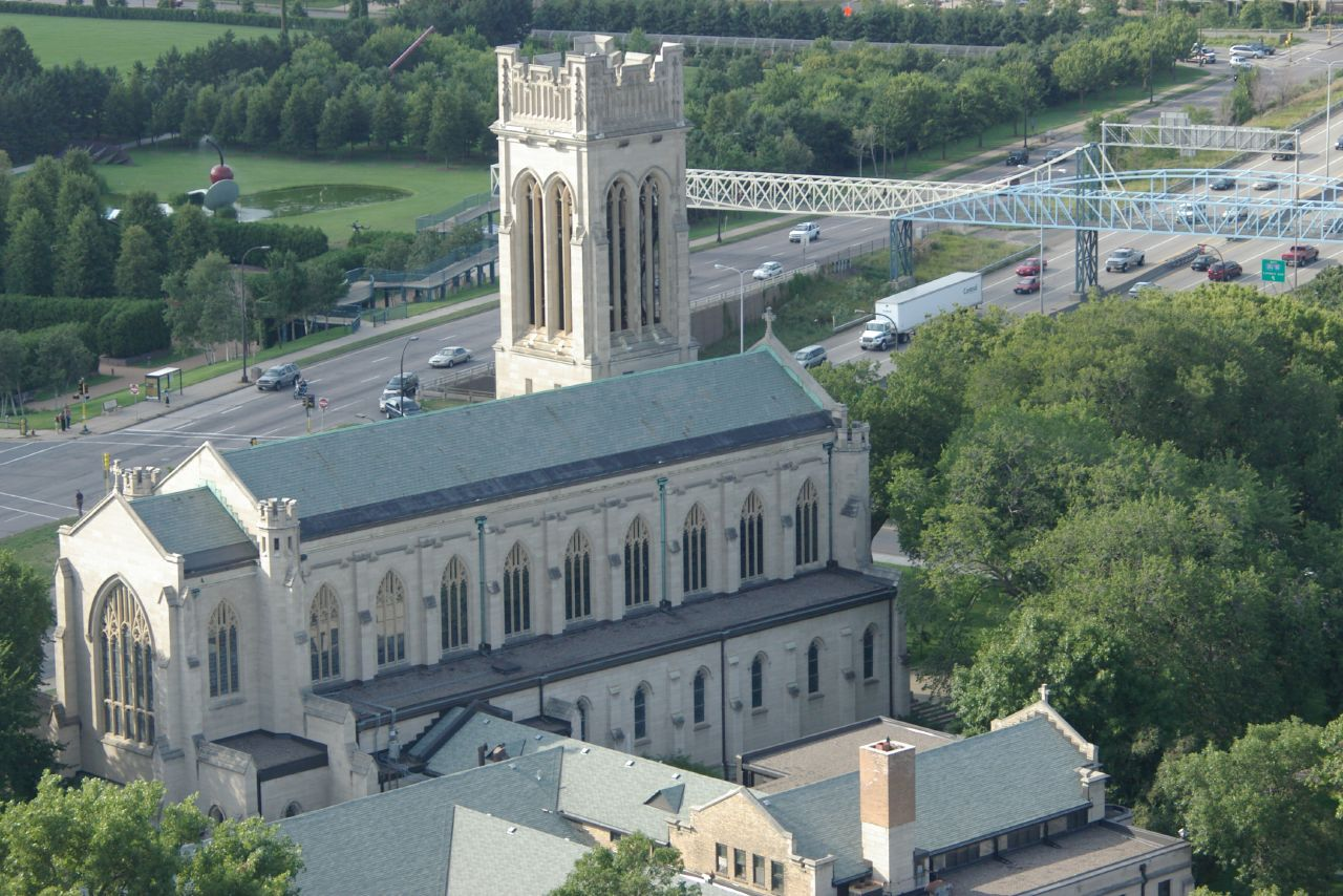 Saint Mark's Episcopal Cathedral - Loring Park - Aug. 12, 2005"Pray for peace, Pray for Bush."